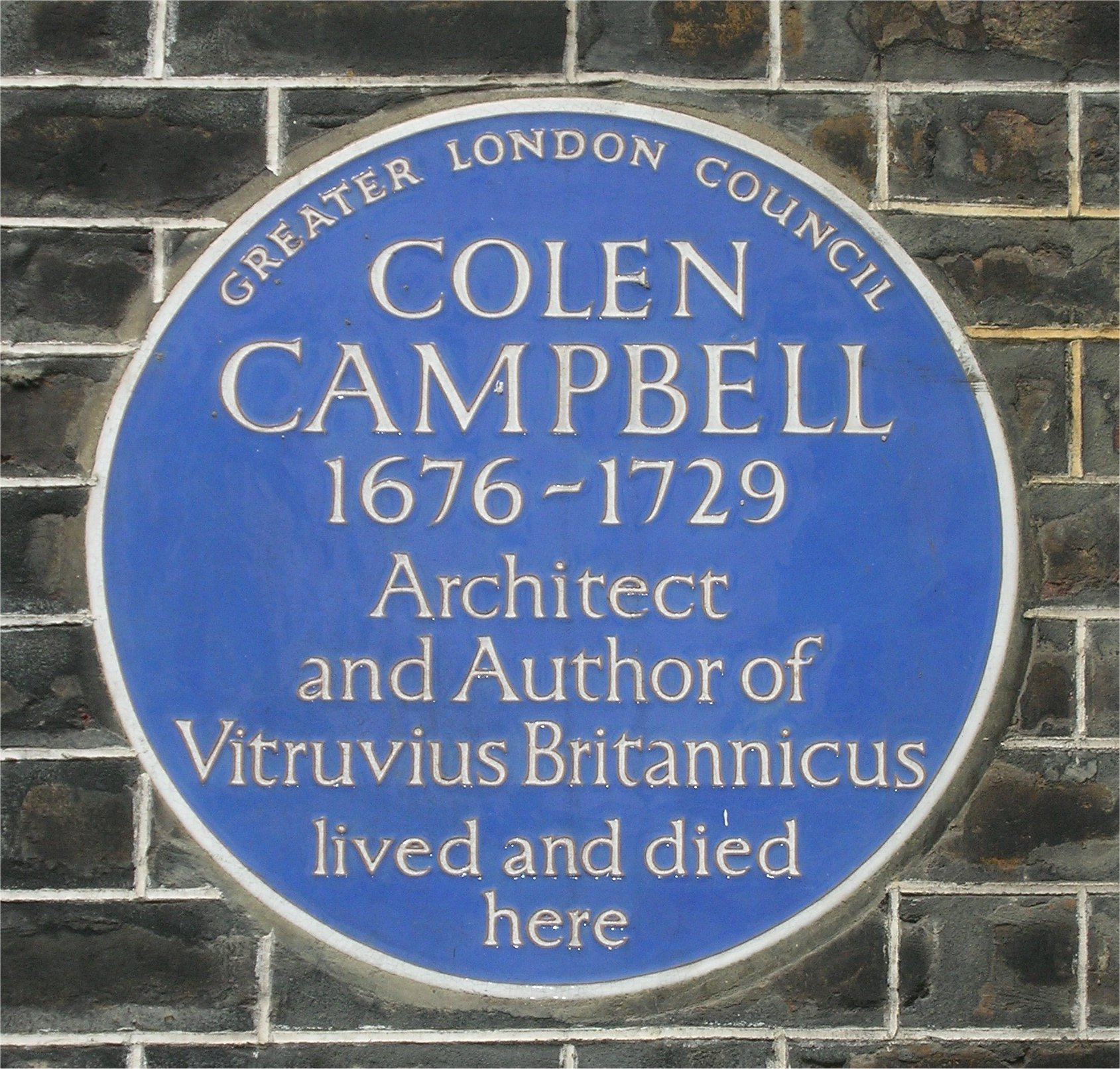 Blue plaque to Colen Campbell on his house at 76 Brook Street, London, England. Photographed by me 29 September 2006. Oosoom